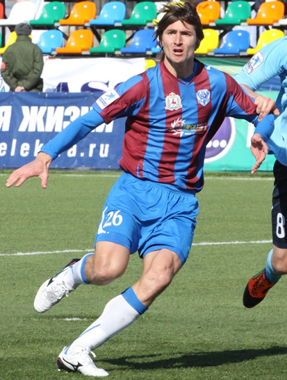 Sergei Bendz with FC Volga Nizhny Novgorod.